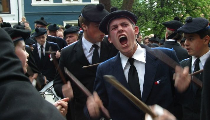 Nordnæs bataillon